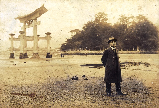 中文（台灣）: 樂信．瓦旦 (1899－1954/4/17) was killed by brutal regime from China in 1954